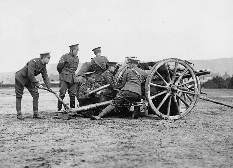 LAC caption : "Canadian Artillery loading a field gun. " Comments : This shows gunners in the standard crew positions, loading a QF 18 pounder. They are wearing caps rather than helmets, which dates the photograph before 1917, or shows a training exercise.